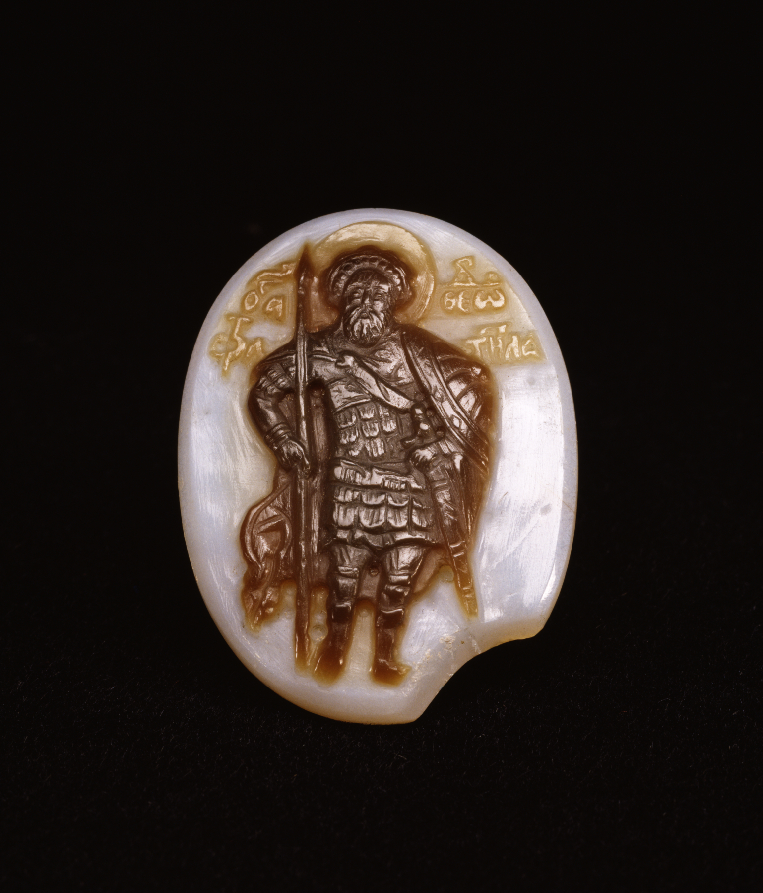 Saint Theodore was a Christian soldier who was persecuted by the Roman authorities on account of his faith. Small cut-stone images of him, like this one, were encased in precious metal frames and worn around the neck by both clerics and laymen. Theodore is shown in full battle gear, including a round shield hung over his shoulder. The dedicatory inscription by the donor of a similar portrait of the saint together with his namesake Theodore the Recruit explains: "Christ points to you, O Theodores, as my armed protectors, so that you deliver me from all danger. . . ."